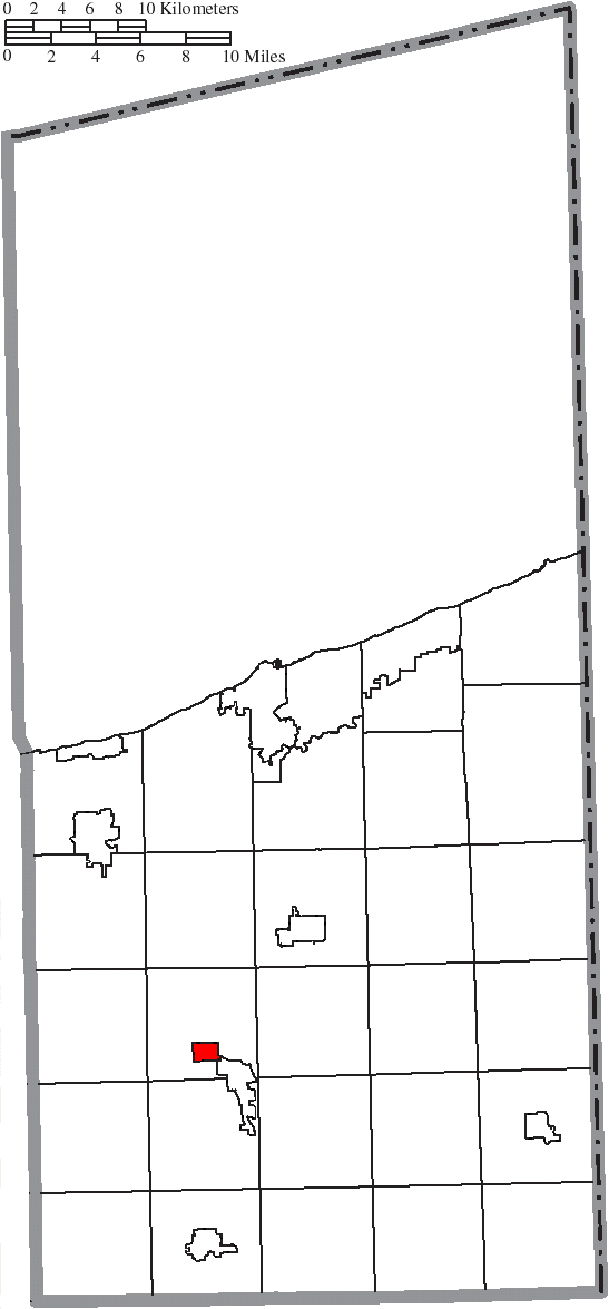 Map of the municipal and township boundaries of Ashtabula County, Ohio, United States, as of the 2000 census, with the location of the village of Rock Creek highlighted. Township borders are shown only in unincorporated areas in order to differentiate incorporated and unincorporated areas more clearly.